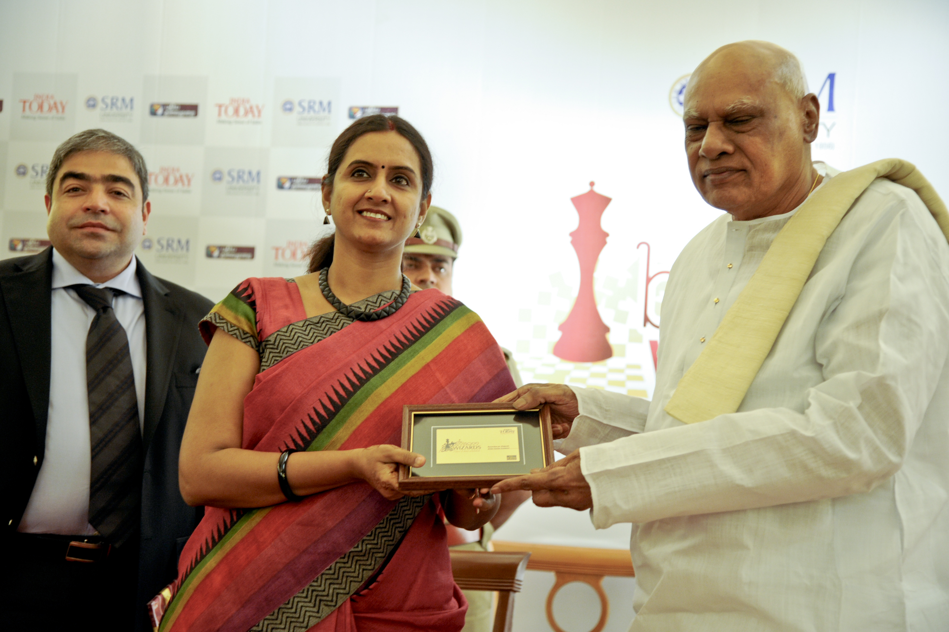 Saundarya Rajesh receiving the Indian Today Business Wizards of Tamilnadu Award from His Excellency the Governor of Tamilnadu, Dr. Rosiah, in Chennai, in November 2011.